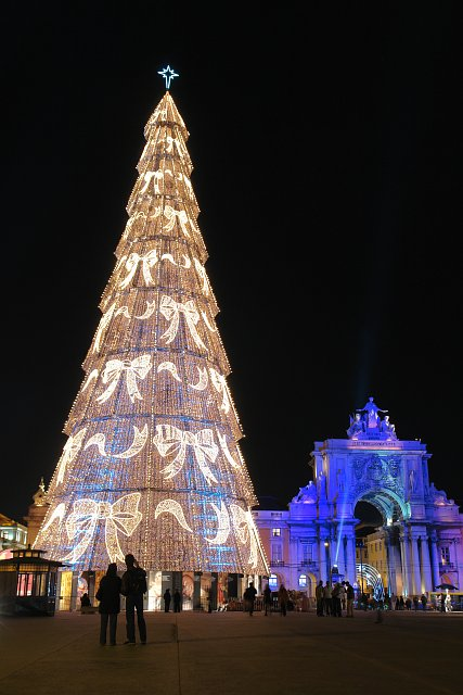 Biggest Christmas Tree in West Europe Photography by Osvaldo Gago.